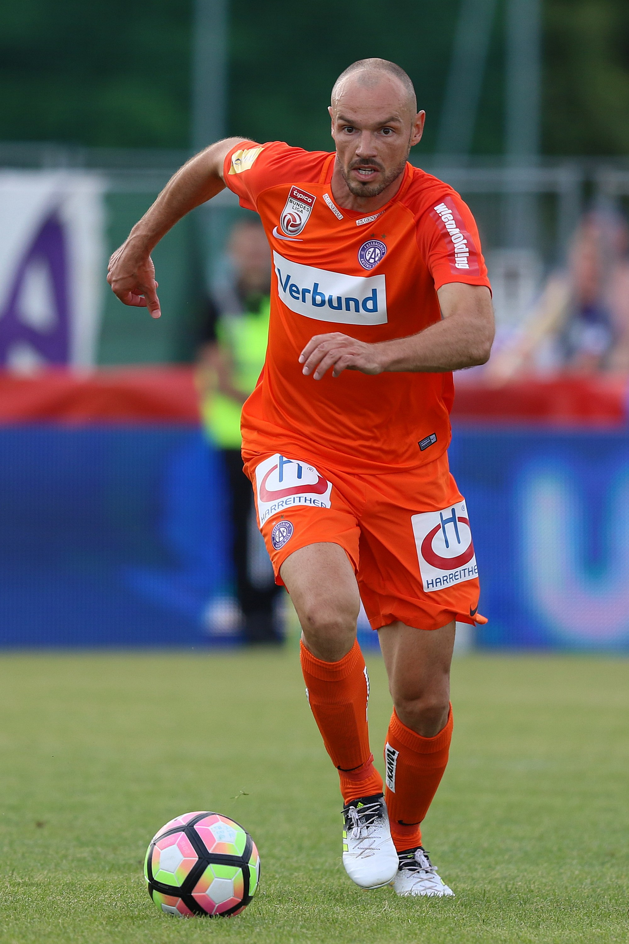 2017–18 Austrian Cup - ASK Ebreichsdorf (blue shirts) vs. FK Austria Wien (orange shirts) 0-0, penaltyscore 3-4. – The photo shows Heiko Westermann